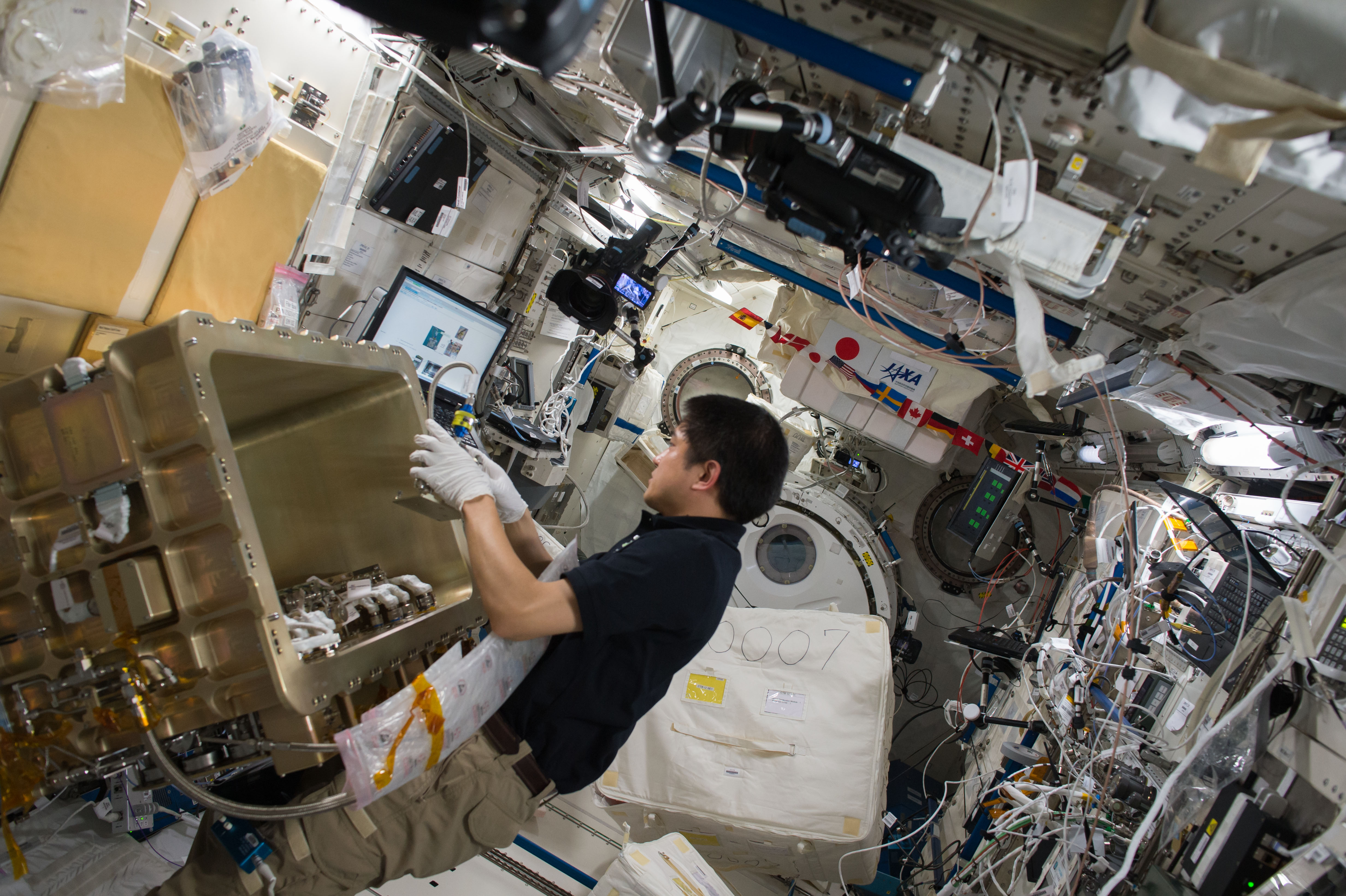 Expedition 49 crewmember Takuya Onishi of JAXA works on the setup of the Group Combustion Module (GCM) inside the Japanese Experiment Module. The GCM will be used to house the Group Combustion experiment from the Japan Aerospace Exploration Agency (JAXA) to test a theory that fuel sprays change from partial to group combustion as flames spread across a cloud of droplets.